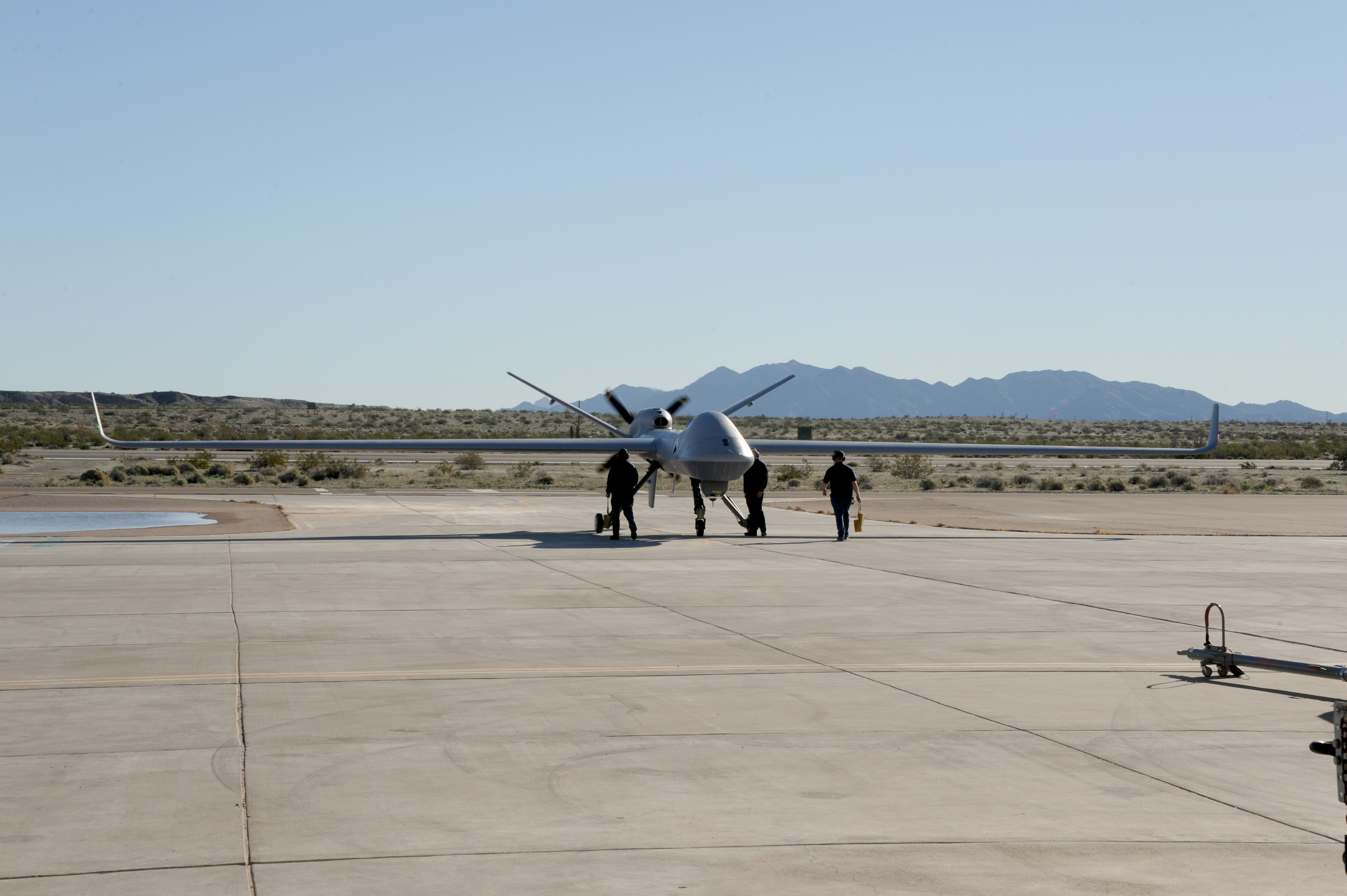 MQ-9B Sky Guardian uses the Laguna Army Airfield for testing and certification